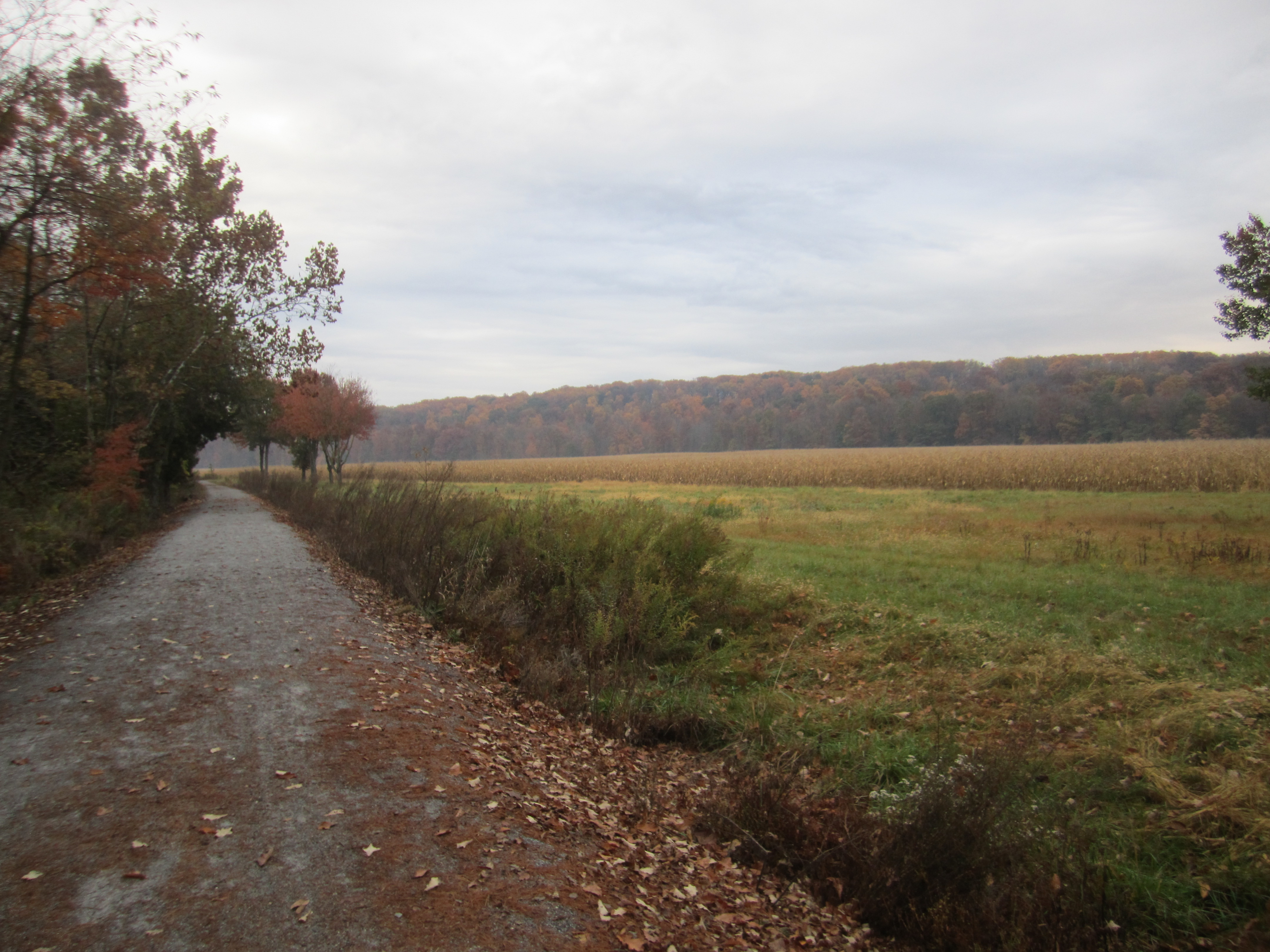 Photo from the Conewago Trail in late October.